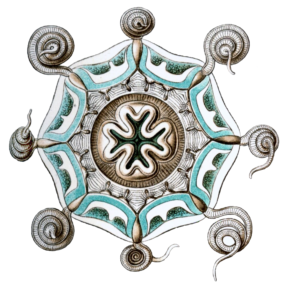 Medusa of Aeginura myosura (Haeckel) =? Aeginura grimaldii Maas, 1904 (bottom view).